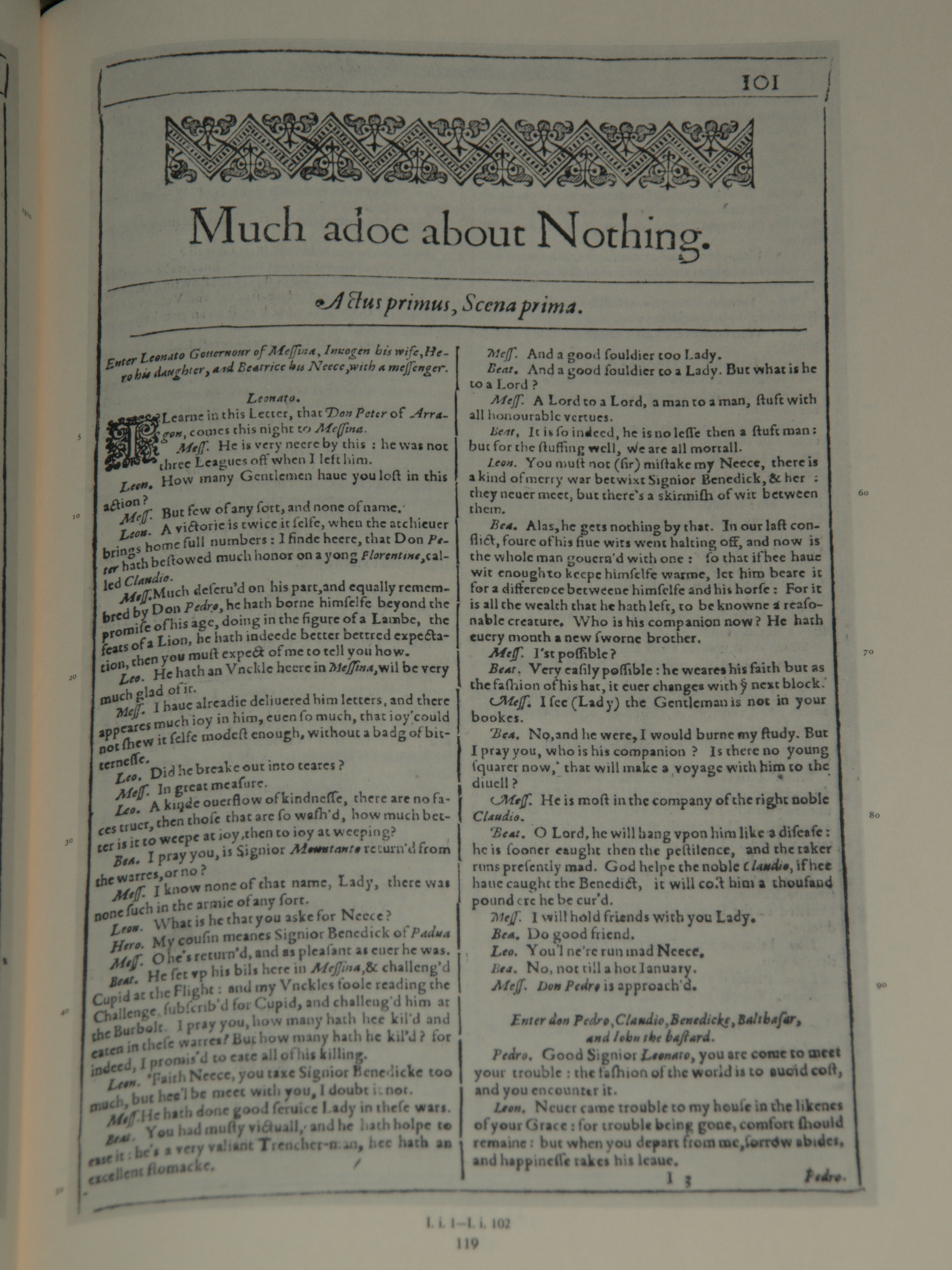 Photo of the first page of Much Ado About Nothing from a facsimile edition of the First Folio of Shakespeare's plays, published in 1623